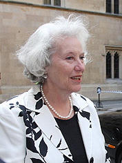 Helene Hayman, Baroness Hayman.